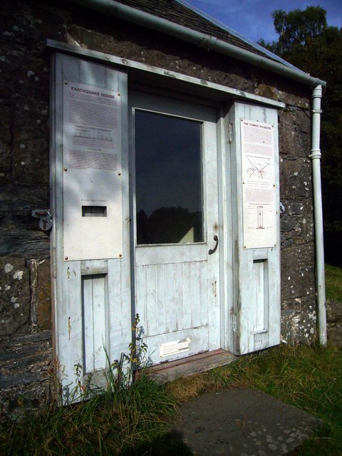 Close up of Earthquake House, Comrie. Lying on the Highland Boundary Fault, Comrie has experienced many tremors in the past, hence its nickname, "Shaky Town". The World's first seismometer was set up here in 1840 and housed in this building in 1869.